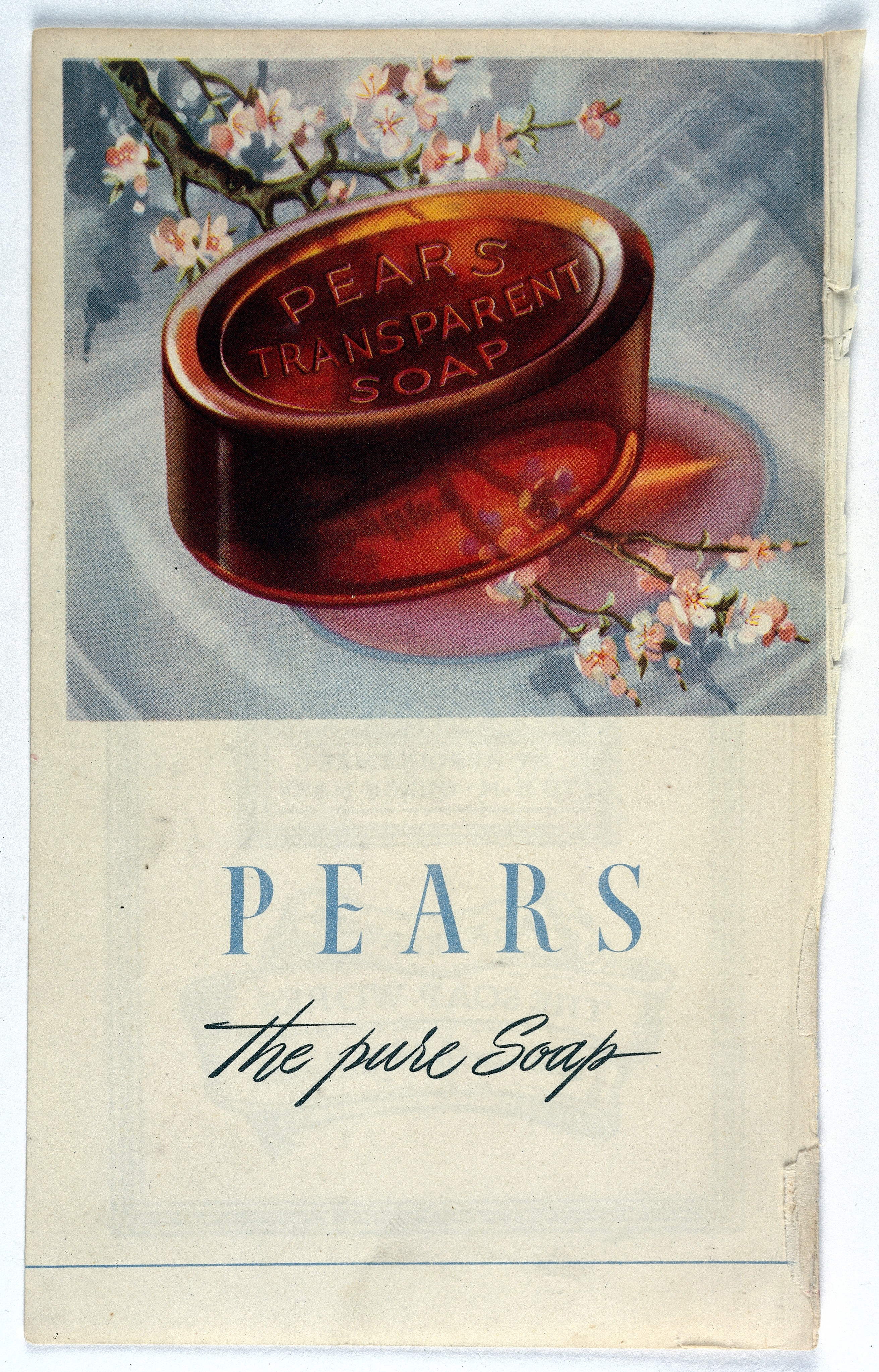 Ephemera Collection. Advertisement for Pears' Soap Caption reads: "The pure Soap" Illustration of a bar of soap. General Collections Keywords: 19th century?; gc; Ephemera